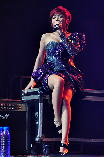 Asia's Soul Siren Nina, performing live at the ASAP Sessionistas 2009 concert in Cebu City, Philippines. ASAP Sessionistas Live in Cebu! October 23, 2009, Friday, 8pm Pacific Grand Ballroom Waterfront Cebu City Hotel and Casino Note: "thesinjin" logo was digitally altered/blocked to gain focus on the main image, but it doesn't affect the whole photo. The photo is still credited to its original author "thesinjin."